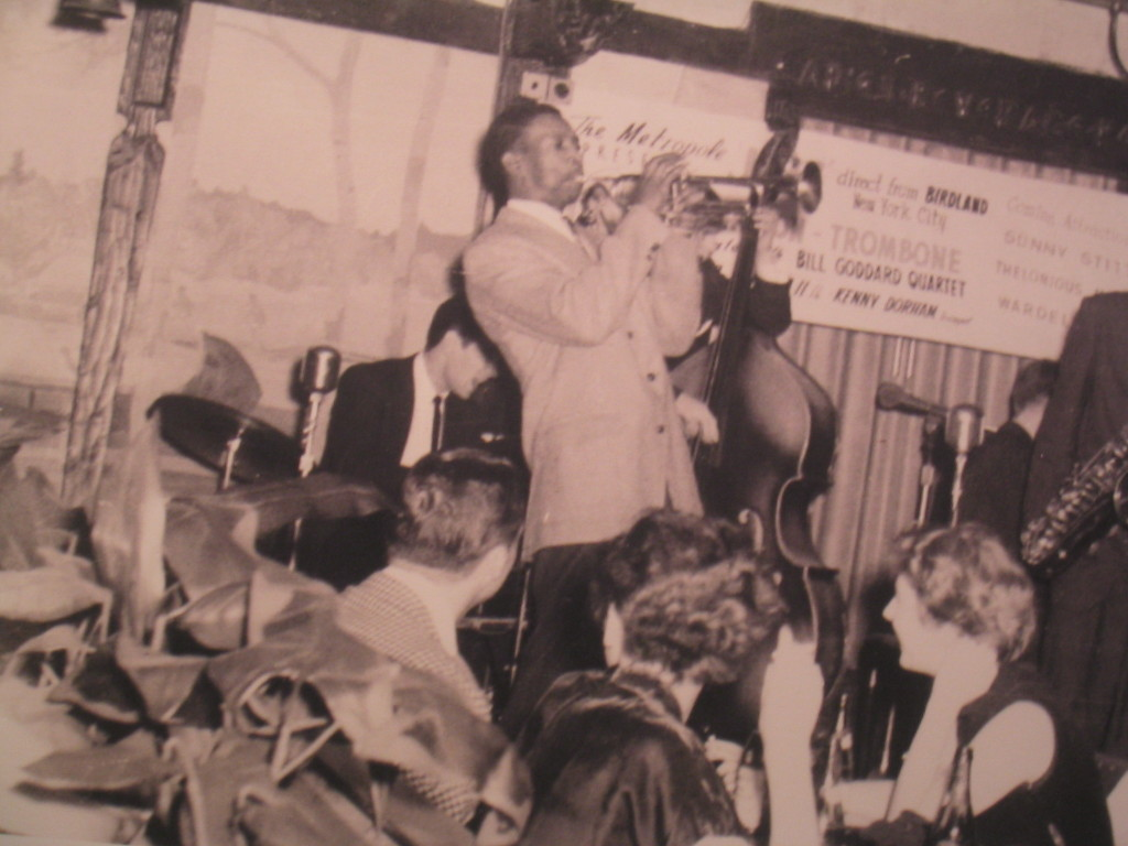 The banner on the wall says, Direct from Birdland New York City, Coming attactions: Sonny Stitt, Thelonious Monk, Wardell Grey, Kenny Dorham (pictured) other guests included Lee Morgan, Al Haig (who I am named after) and many more. Appearently Monk never showed up. However I did meet him once when I was about 7 years old at the Colonial Tavern. The Bill Goddard Quartet - Metropole Hotel in Toronto Bill Goddard tenor Sax- Herbie Helbig piano- Bob Shilling Bass & Fred Webster drums. The good ole daze!